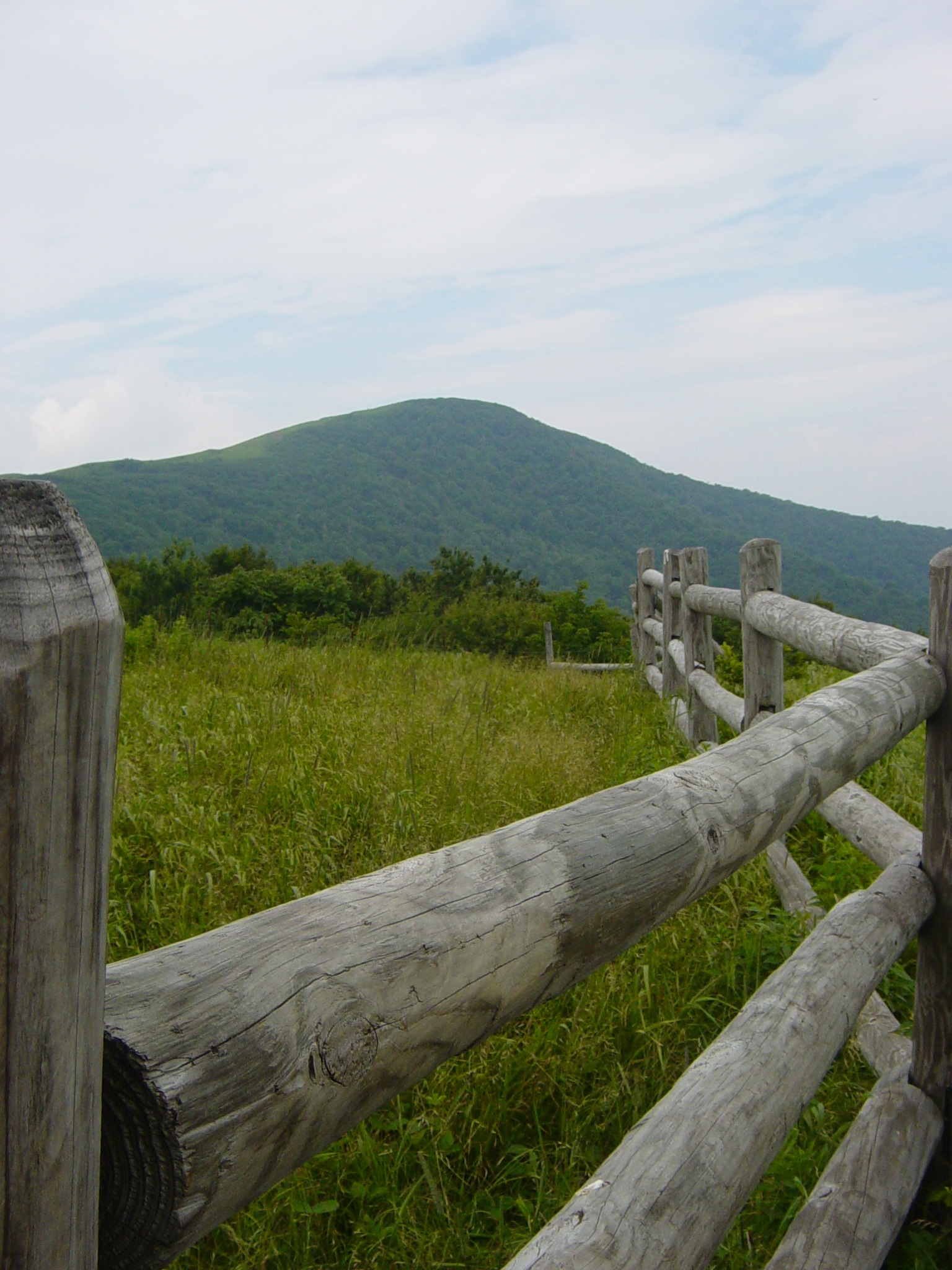 Roan Mountain, within the Blue Ridge Mountains, at the border between Tennessee and North Carolina, United States. Photo taken/submitted by Tom Forbes